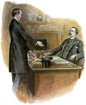 Arthur Conan Doyle, "The Adventure of the Empty House" (1903), Illustration by Sidney Paget, in The Strand Magazine. Orginal caption:"Sherlock Holmes was standing and smiling at me across my study table."